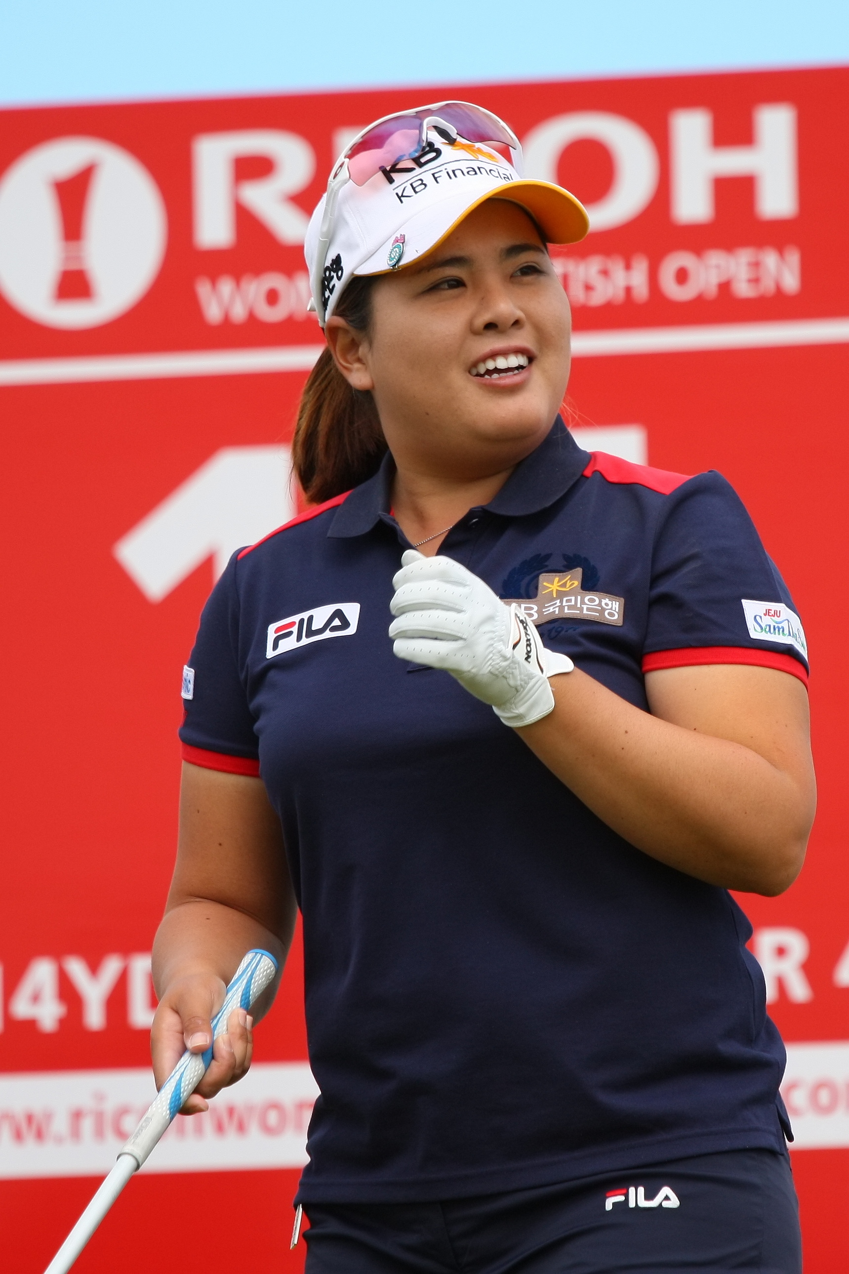 ST ANDREWS, SCOTLAND – JULY 31: Park Inbee of South Korea on the 15th tee during final practice round of 2013 Ricoh Women's British Open held at St Andrews Old Course on July 31, 2013 in St Andrews, Scotland. (Photo by Wojciech Migda)